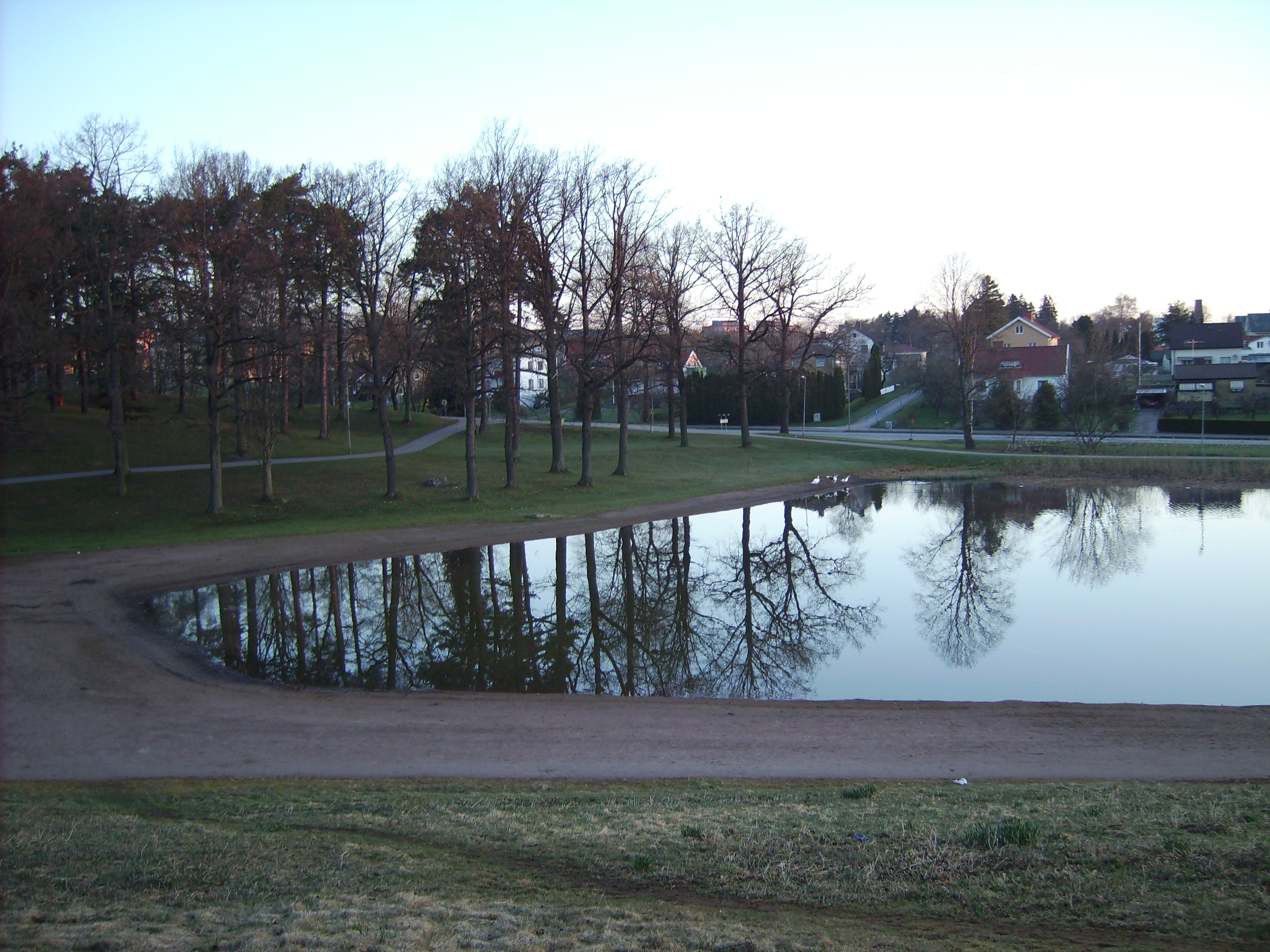 Photo by Harri Blomberg.